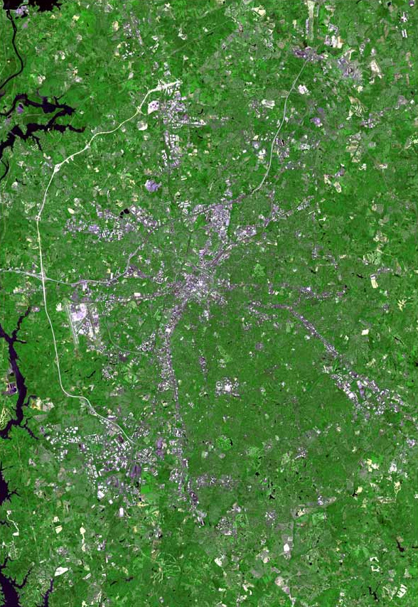 The raw satellite imagery shown in these images was obtain from NASA and/or the US Geological Survey. Post-processing and production by